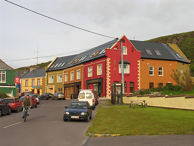 Ballyferriter. Ballyferriter lies in the north eastern section of the grid square on the R559 (Dingle Way). This is a view of the southern end of the town.